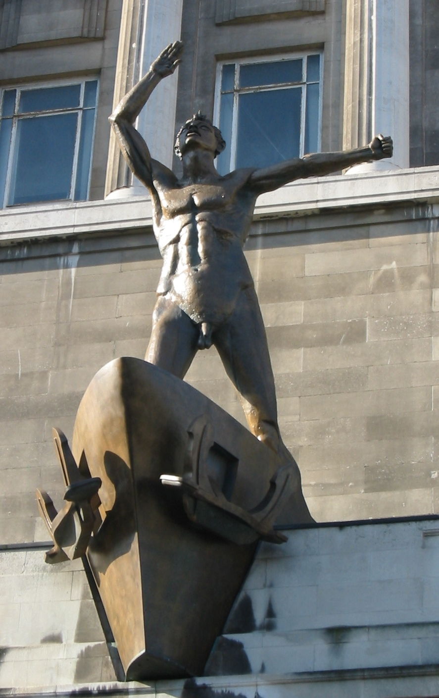 Statue Liverpool Resurgent, 1954-56, by sculptor Jacob Epstein above the corner entrance to Lewis's department store, Liverpool, England.